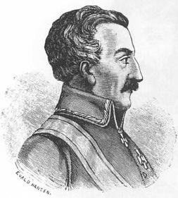 The swedish Johan Adam Cronstedt 1811-1863